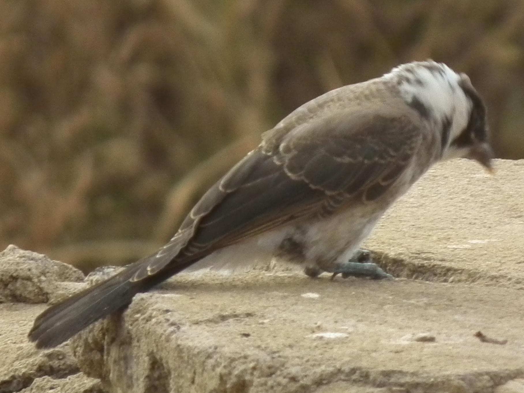 juvenile Northern White-crowned Shrike (Eurocephalus rueppelli) in Tanzania